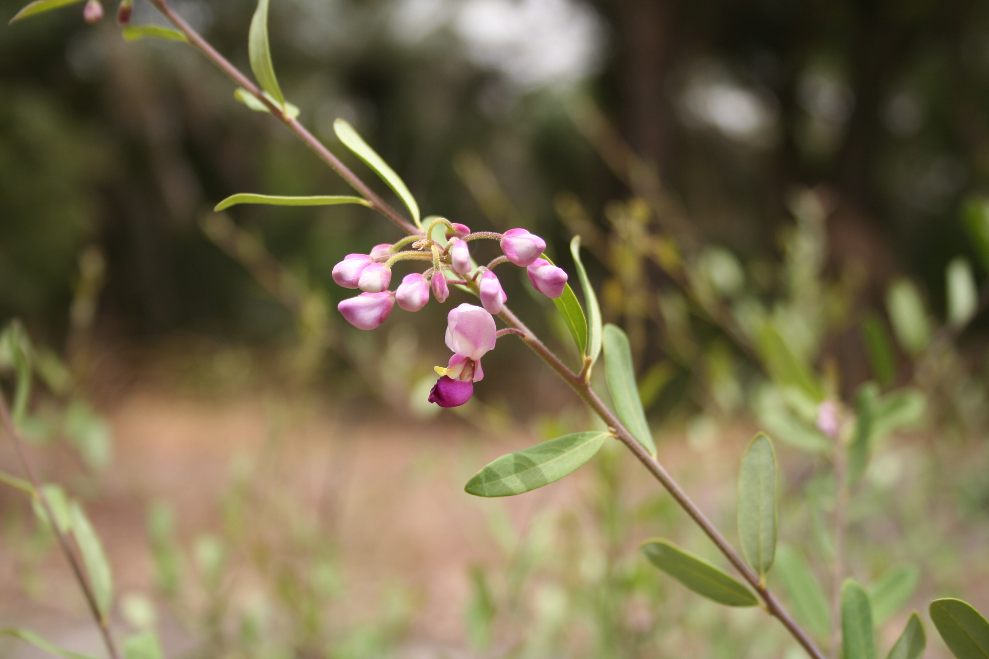 flowers of Securidaca longipedunculata, F.Cl. de Patako, Senegal